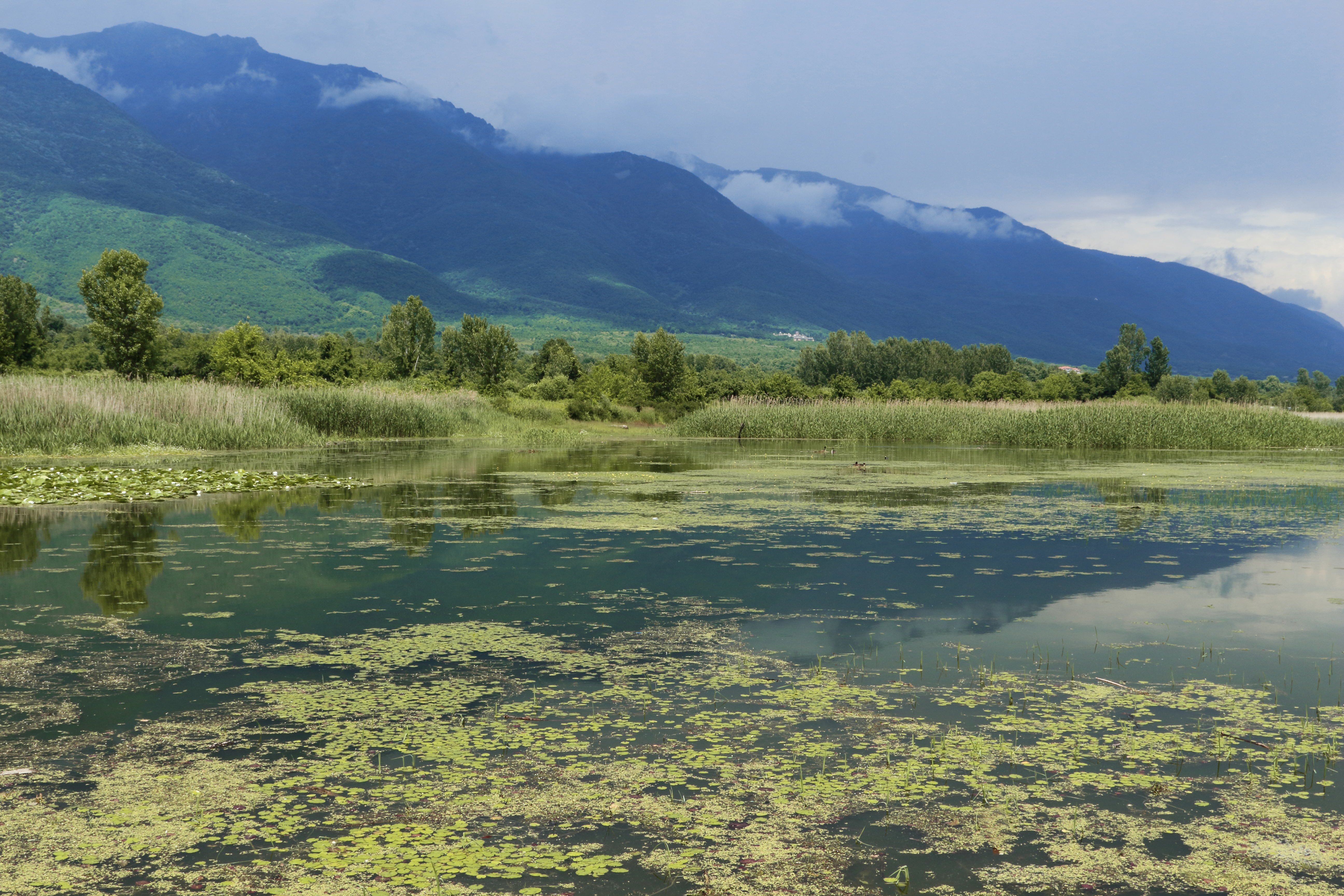 Kerkini wetland